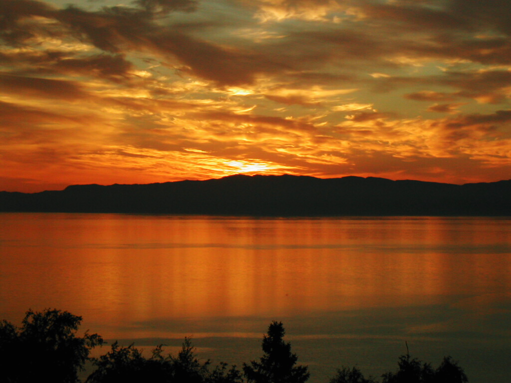 Trondheimsfjorden, a fjord located in the county Sør-Trøndelag, Norway.